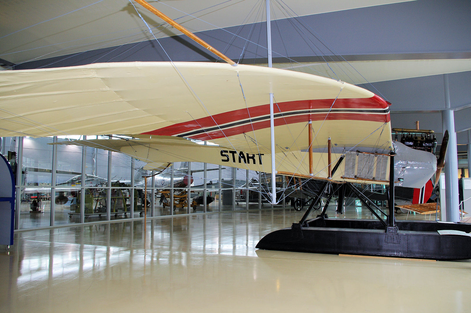 Rumpler Taube "Start", Flysamlingen, Gardermoen